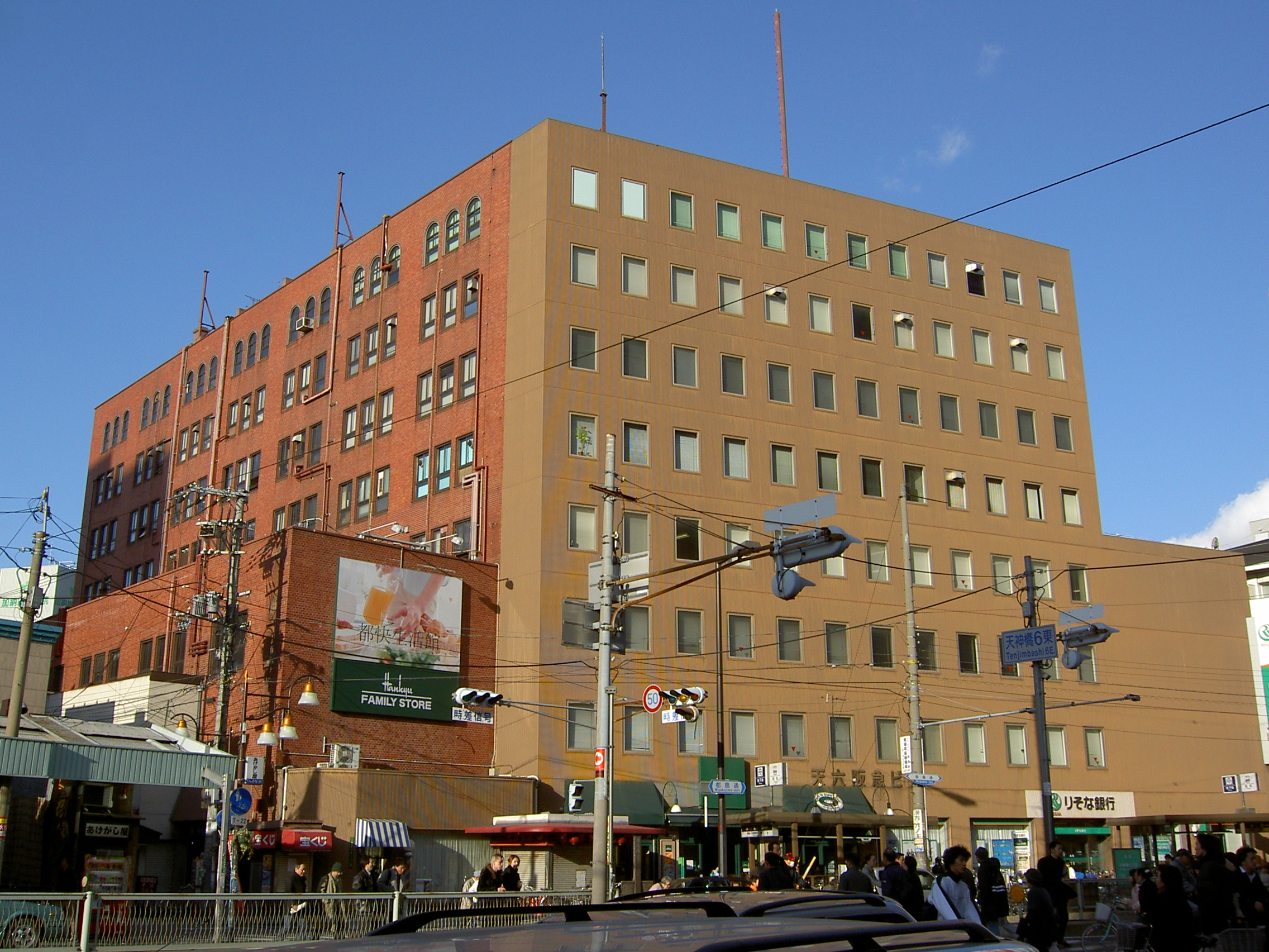 Tenroku Hankyu Building (former Shinkeihan Tenjimbashisuji Station). 7-1-10, Tenjimbashi, Kita-ku, Osaka-shi, Osaka, Japan.